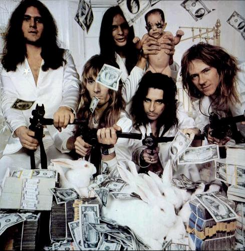 Trade ad for Alice Cooper's "No More Mr. Nice Guy". To better adapt it to his respective Wikipedia article, the ad was cropped and cleaned in a graphics editing program. The original can be viewed at the source below.